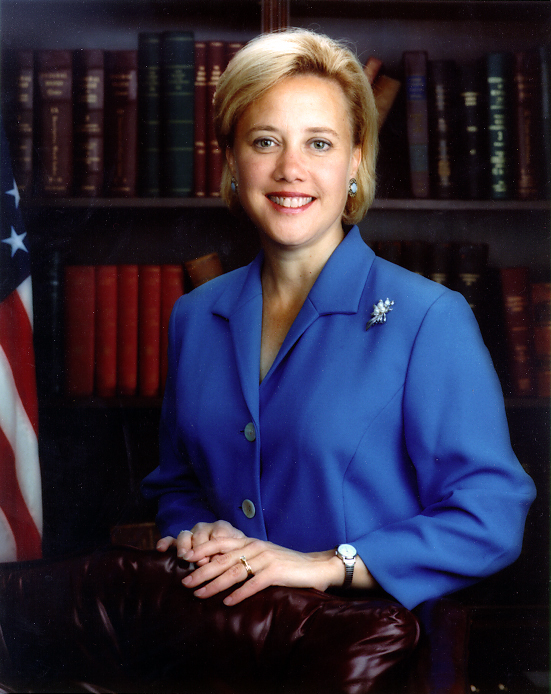 Louisiana Senator Mary Landrieu, standing in front of a bookcase.